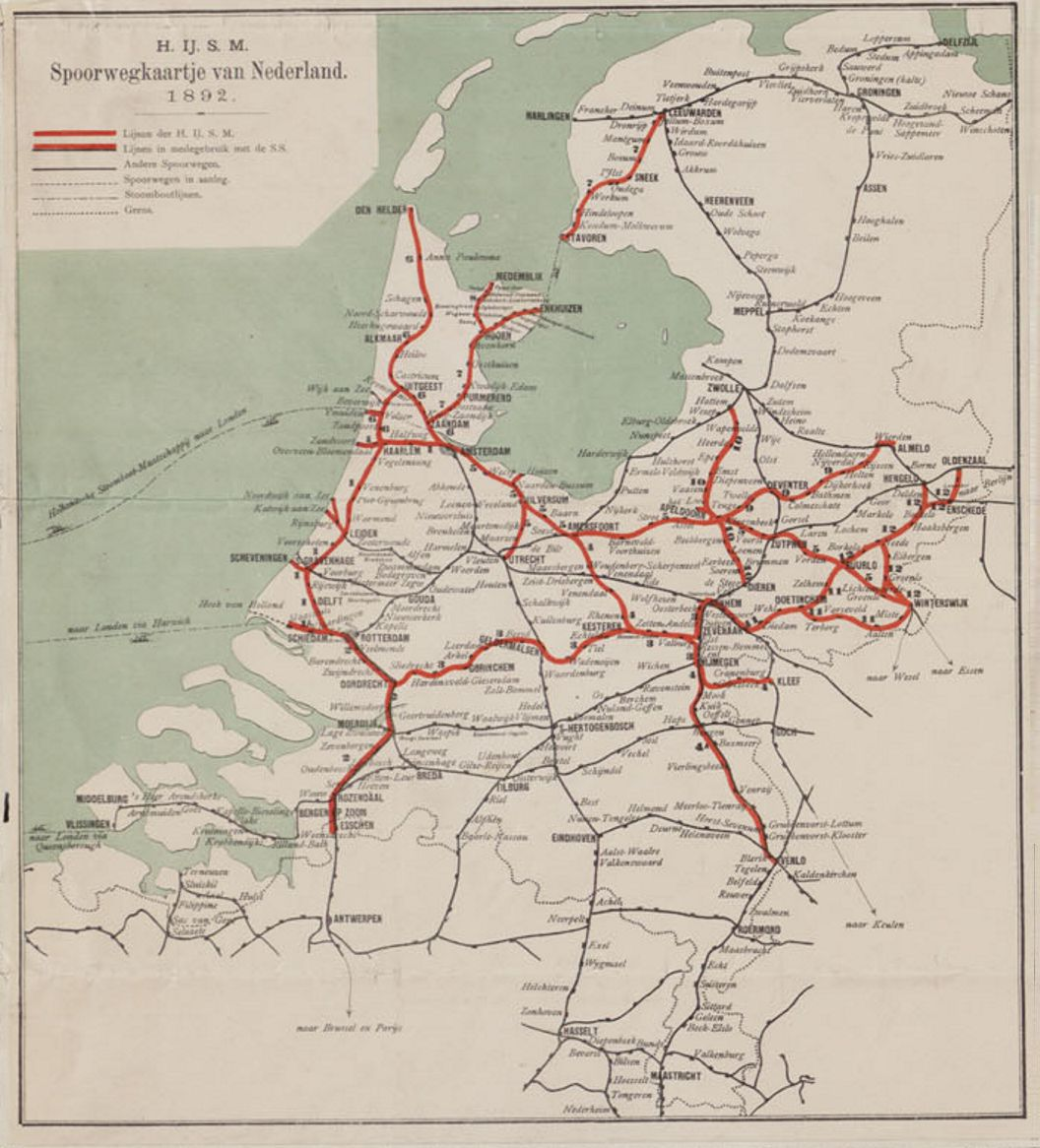 HIJSM Spoorkaartje van Nederland, 1892